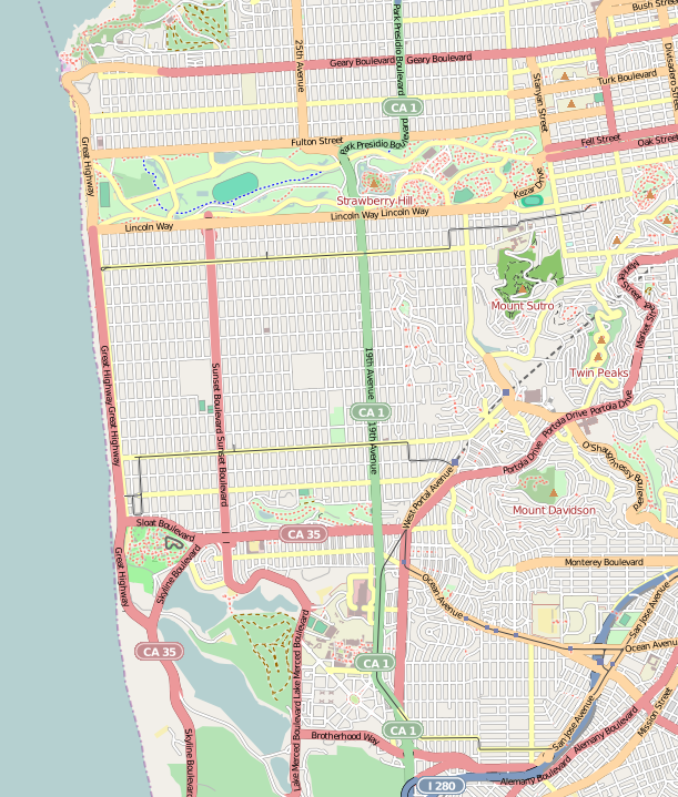 This map of 19th Avenue, western San Francisco was created from OpenStreetMap project data, collected by the community. This map may be incomplete, and may contain errors. Don't rely solely on it for navigation.